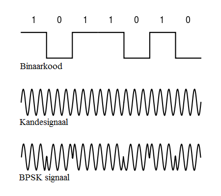 Forming of BPSK signal